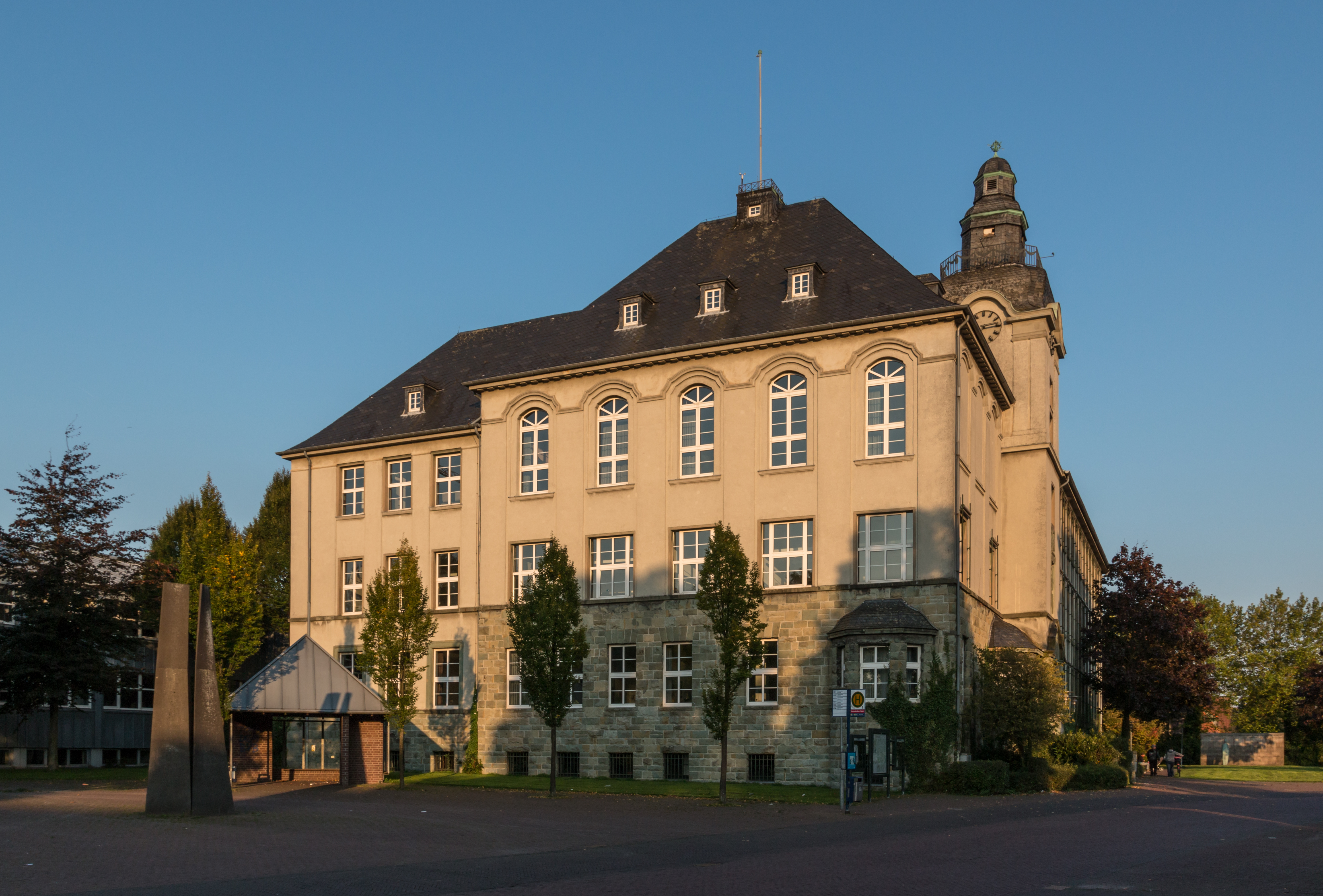 Hermann Leeser Secondary School, Dülmen, North Rhine-Westphalia, Germany This image shows a heritage building in Germany, located in the North Rhine-Westphalian city Dülmen (no. 122).